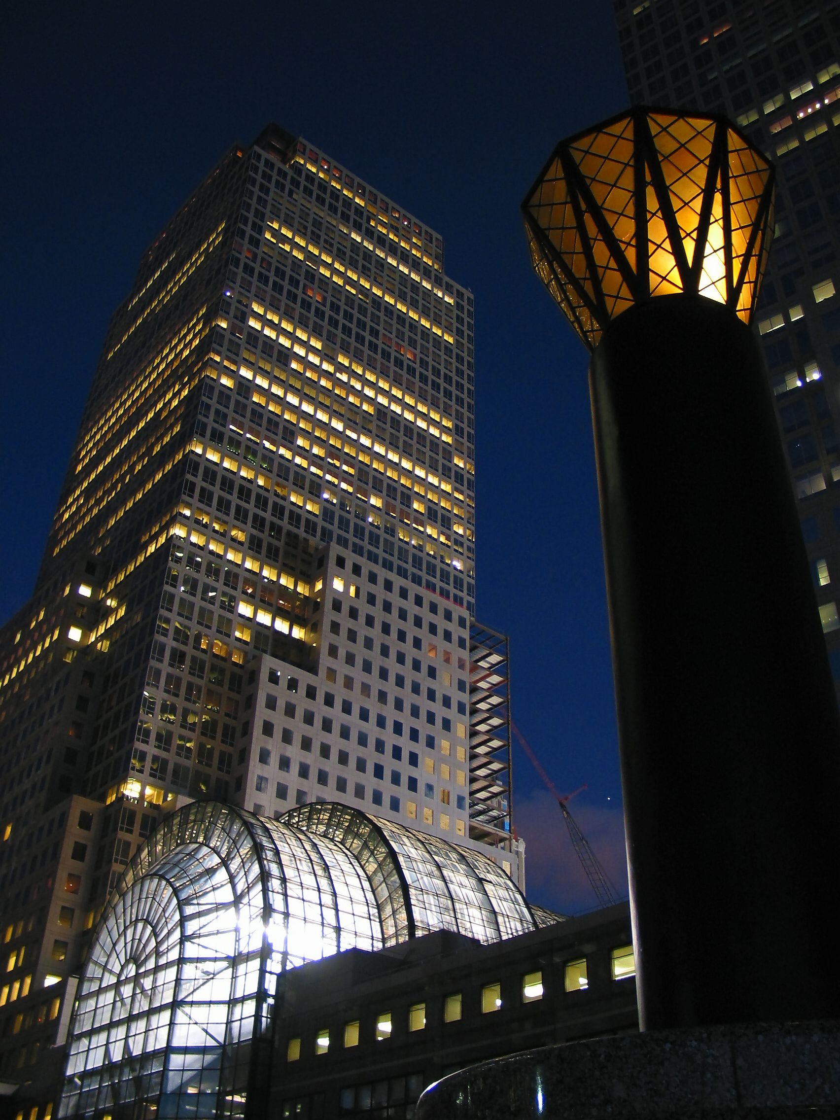 Winter Garden Atrium and 3 World Financial Center, January 2002. 3WFC had been damaged by falling debris from 1 WTC.